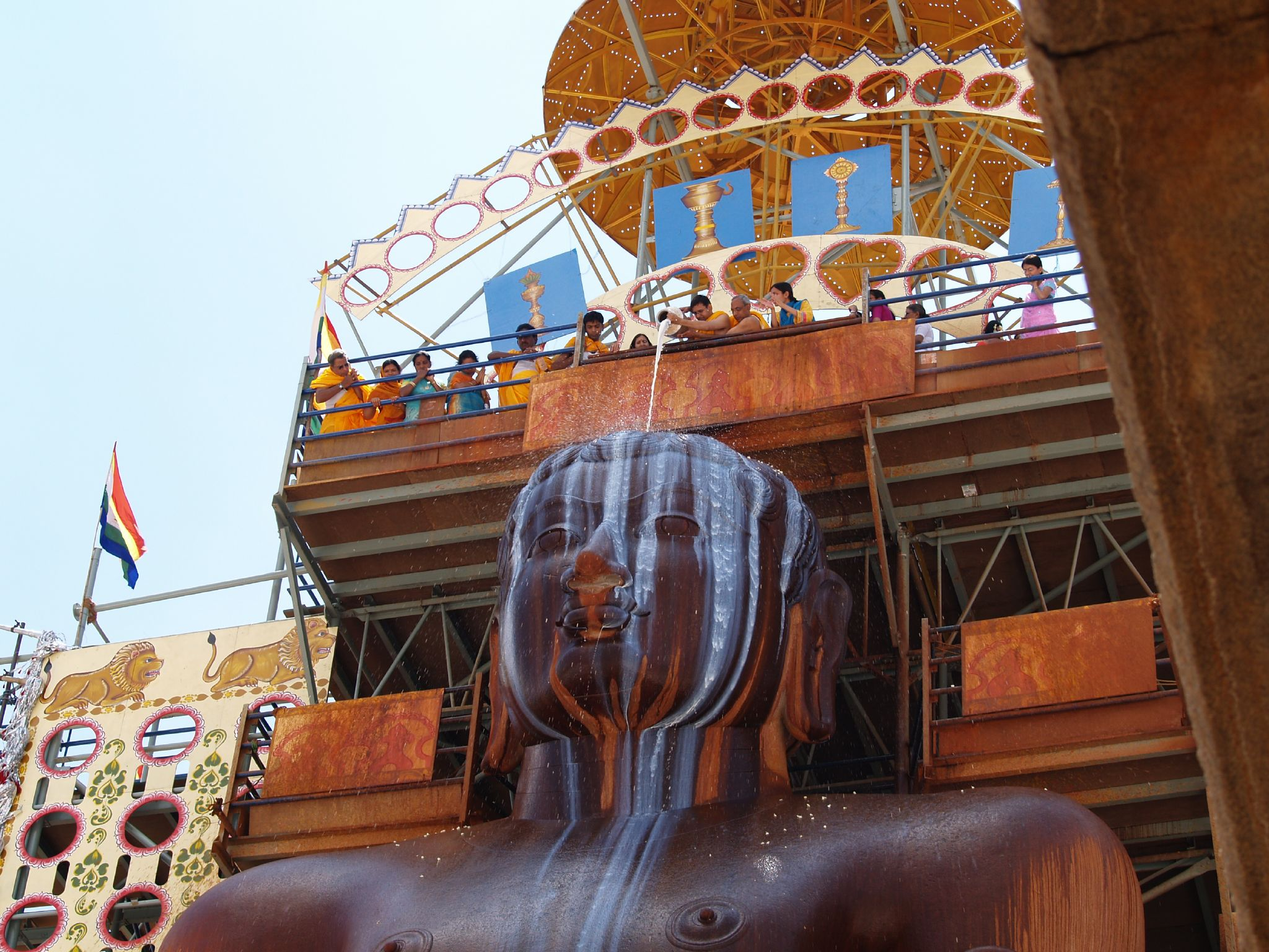 Offerings poured over the Jain Lord Bahubali, the world's largest monolithic statue.